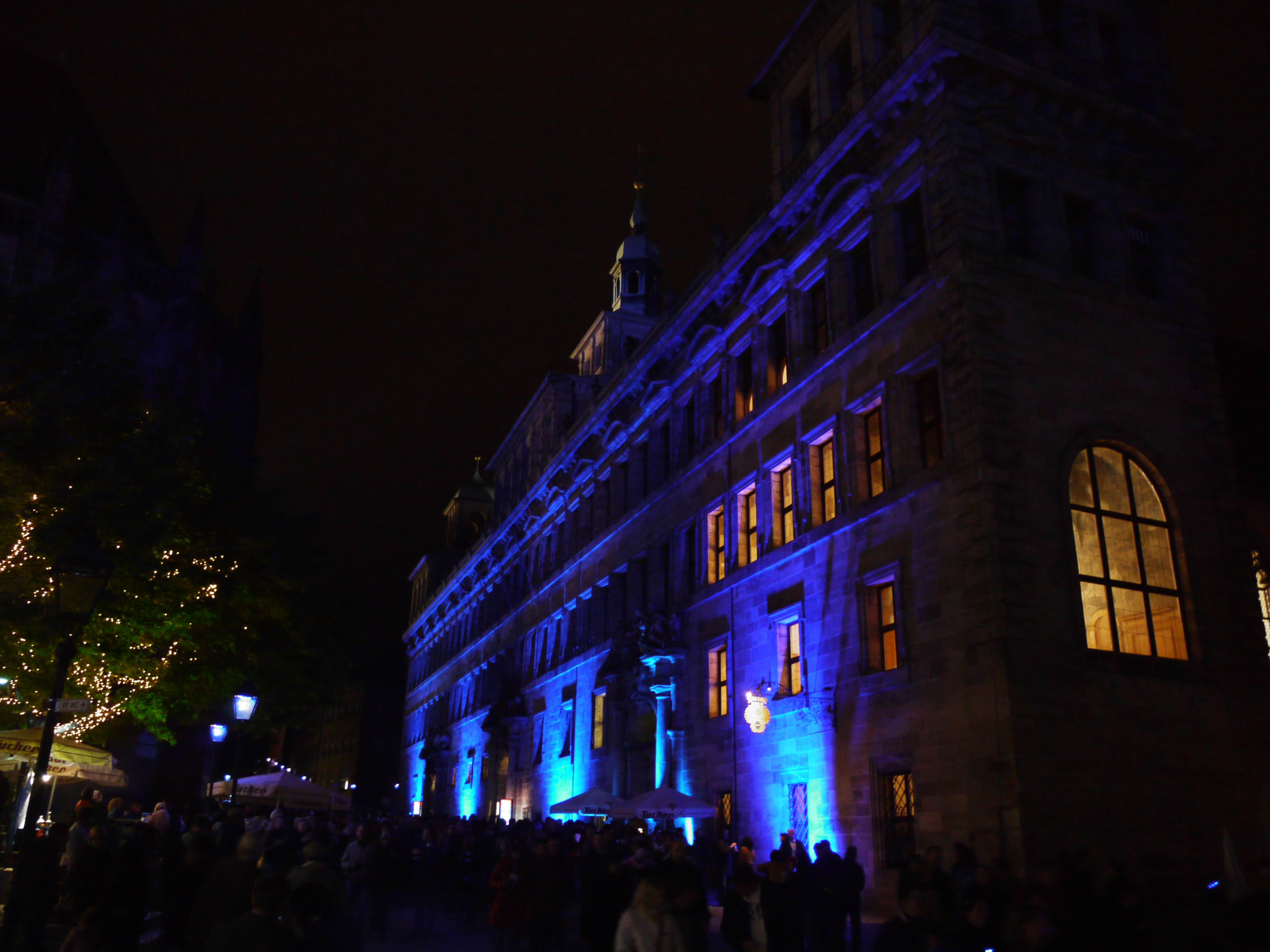 Blaue Nacht ("Night in Blue") in Nuremberg, Germany in May 2010: City hall